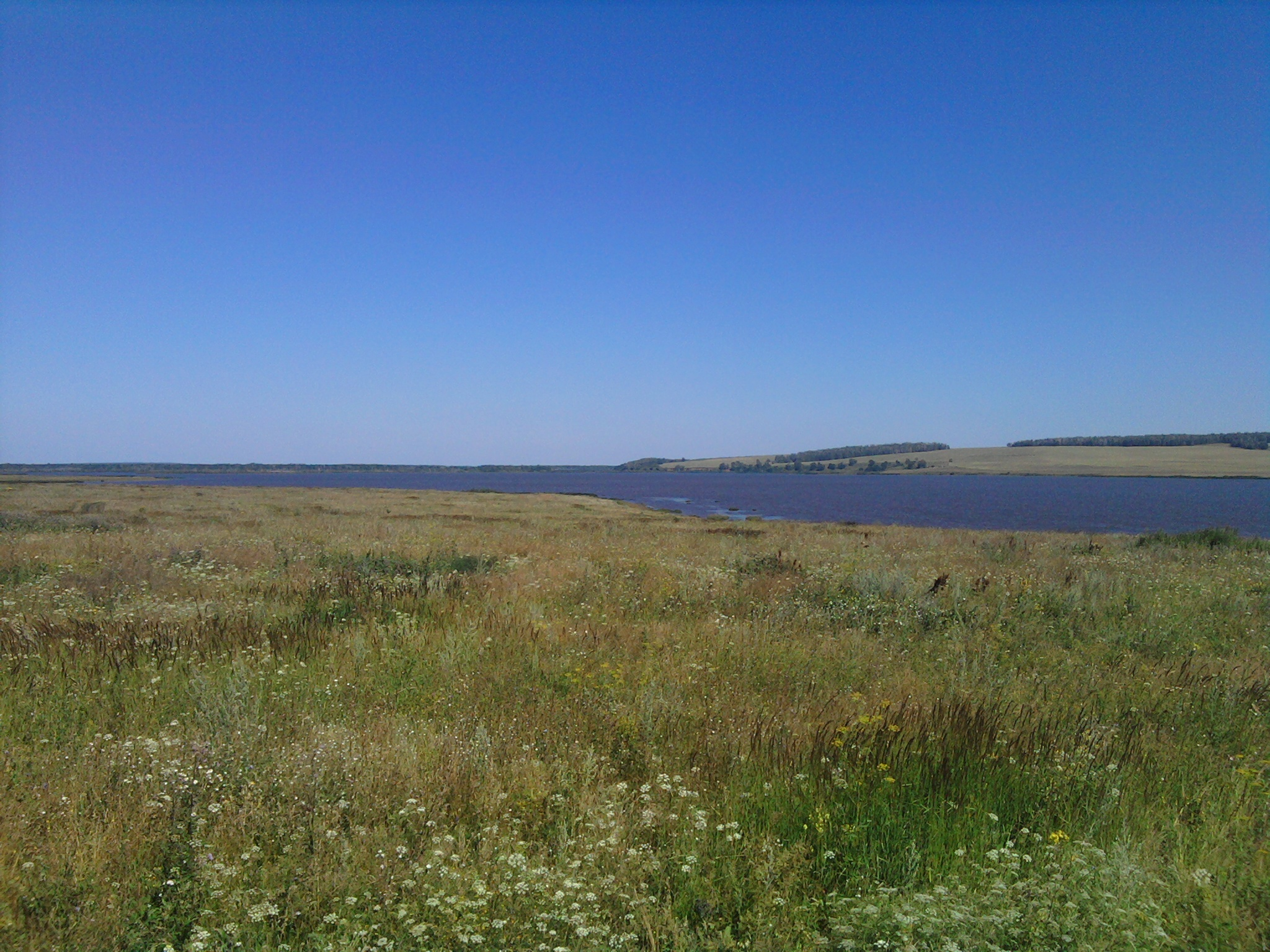 The gulf of Nizhnekamsk Reservoir near Menzelya River’s mouth in Tatarstan, Russia; before the reservoir was created, Menzelya was flowing into Ik River around here